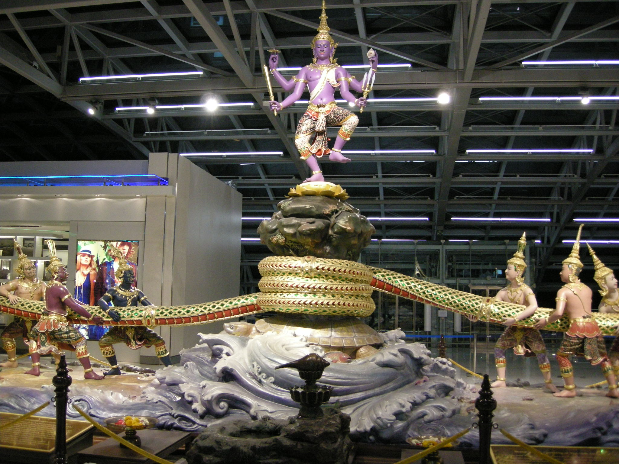 "The Churning of the Milk Ocean" - a mythological story adapted from Hinduism:Vishnu dancing on the top of Mount Meru.